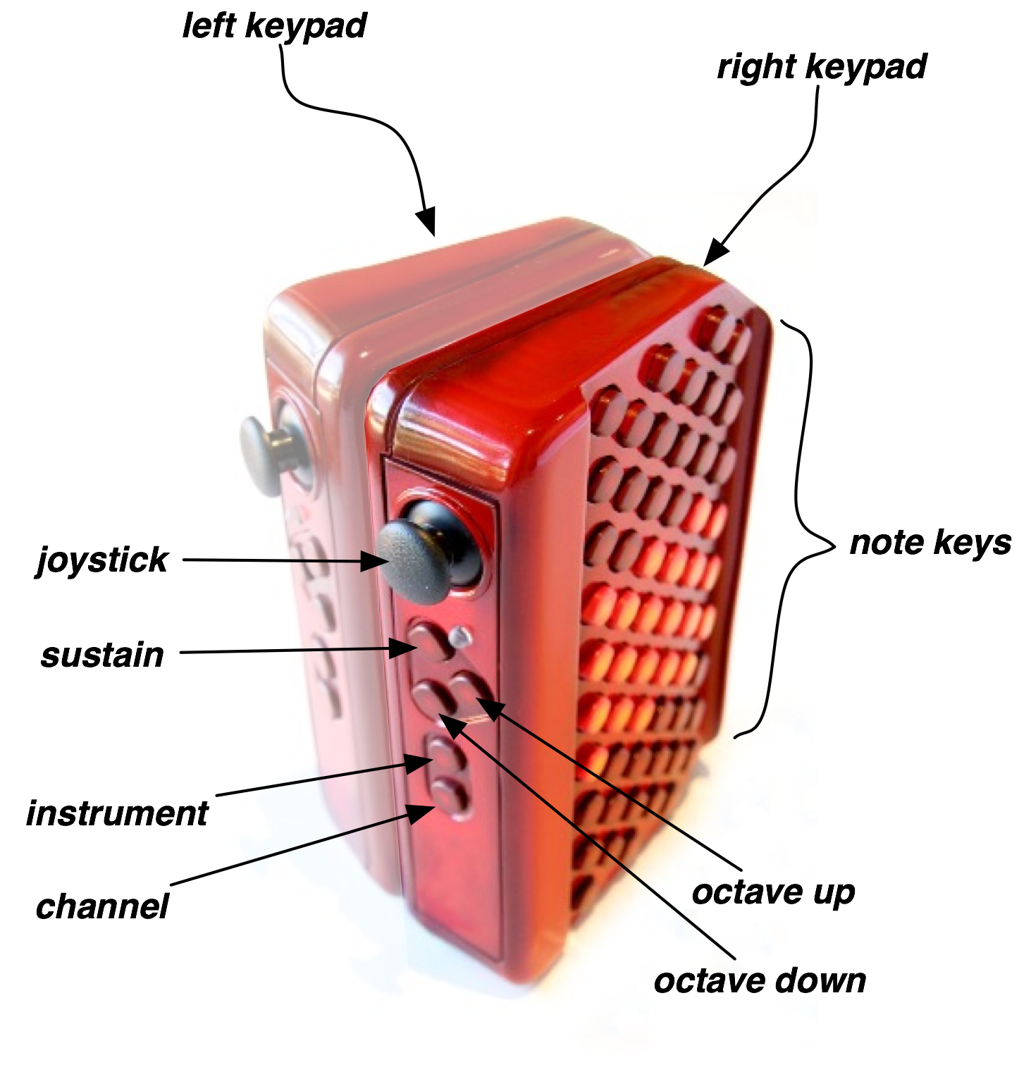 A prototype Thummer, which was intended to be the first commercial "jammer" -- a new category of digital musical instruments.